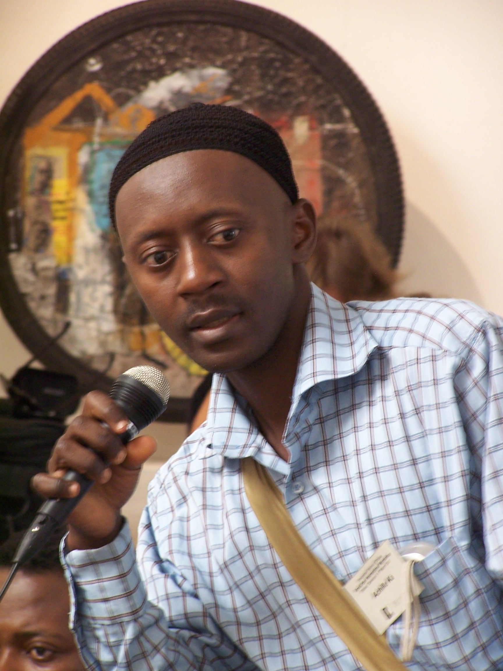 Ars&Urbis International Workshop 2007, Douala, March 2007. Photo by Paulin Tchuenbou for doual'art.